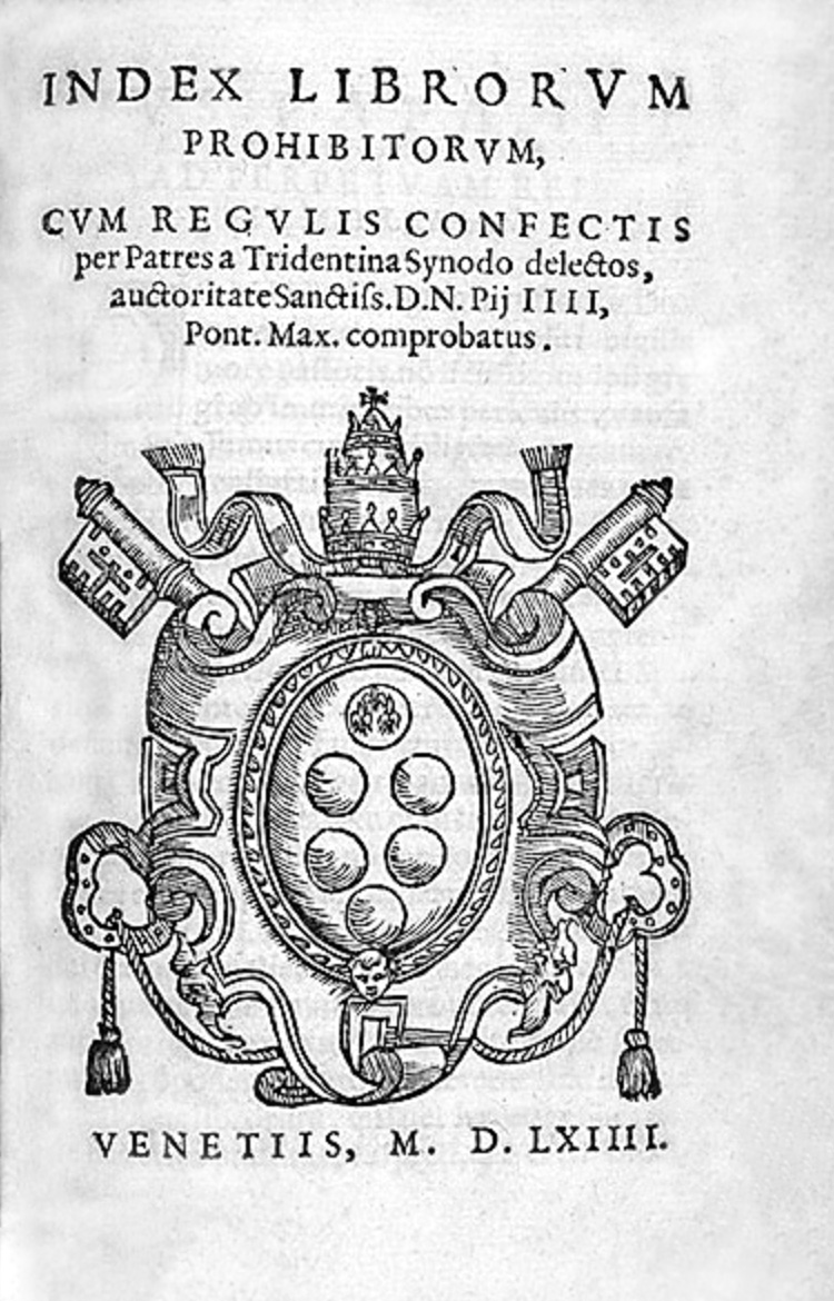 The Index Librorum Prohibitorum ("List of Prohibited Books") is a list of publications which the Catholic Church censored for being a danger to itself and its members. Title page of the 1564 edition, printed in Venice.